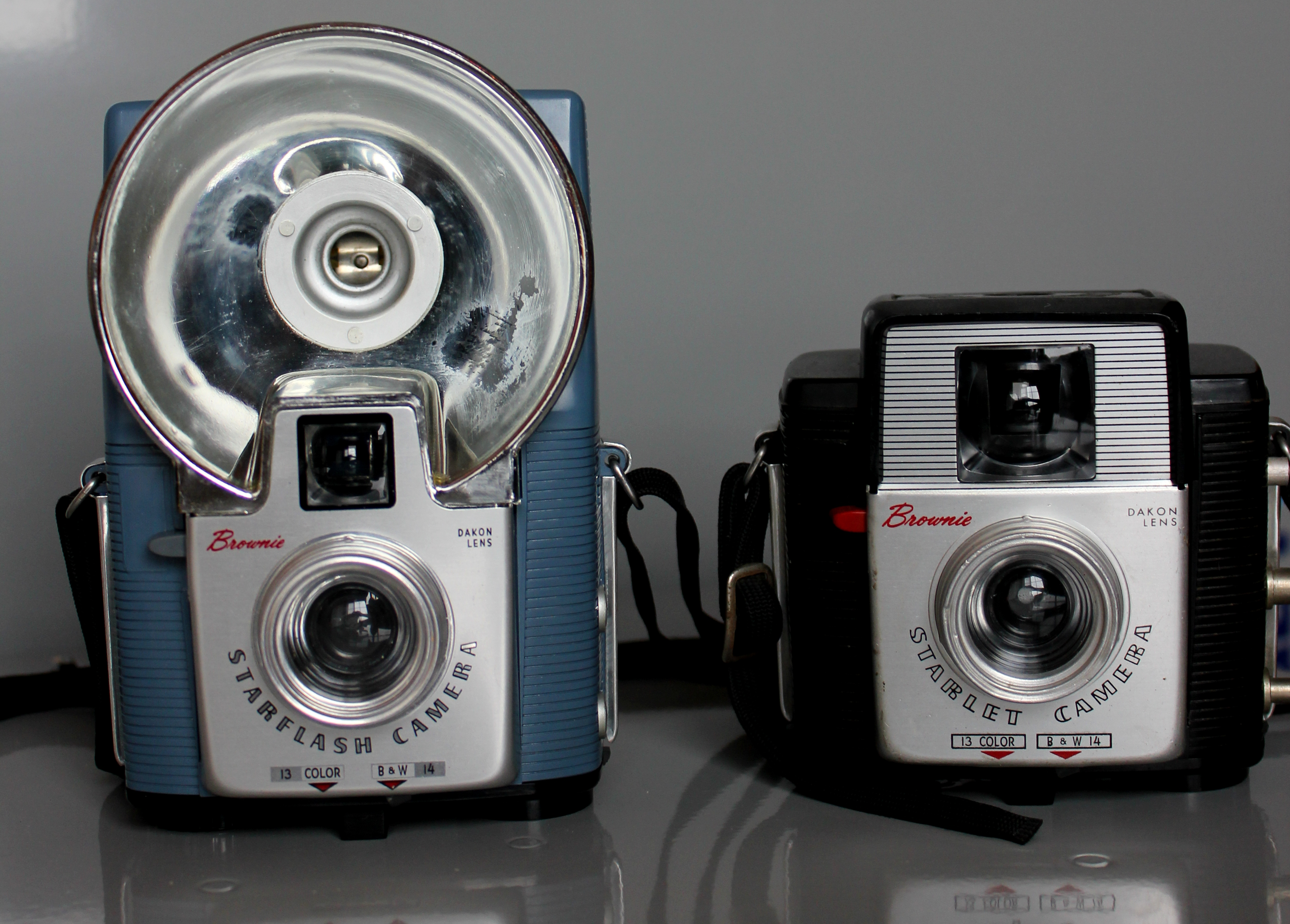 Depicts a Kodak Starflash and similar model Starlet camera for use on Wikipedia's Starflash page.